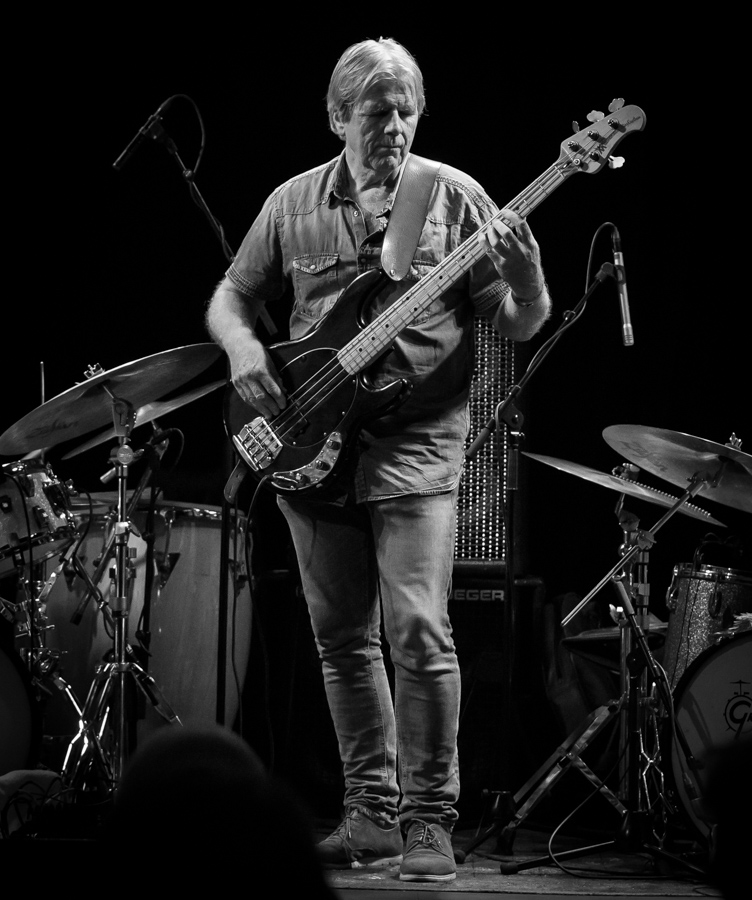 Edvard Askeland performs with Cutting Edge at the stage of Nasjonal Jazzscene Victoria. The concert was part of the Oslo Jazz Festival in Norway and took place on 17. August 2016. Lineup:Rune Klakegg (keyboard)Morten Halle (tenor saxophone)Knut Værnes (guitar)Edvard Askeland (bass guitar)Frank Jakobsen (drums)Stein Inge Brækhus (drums)